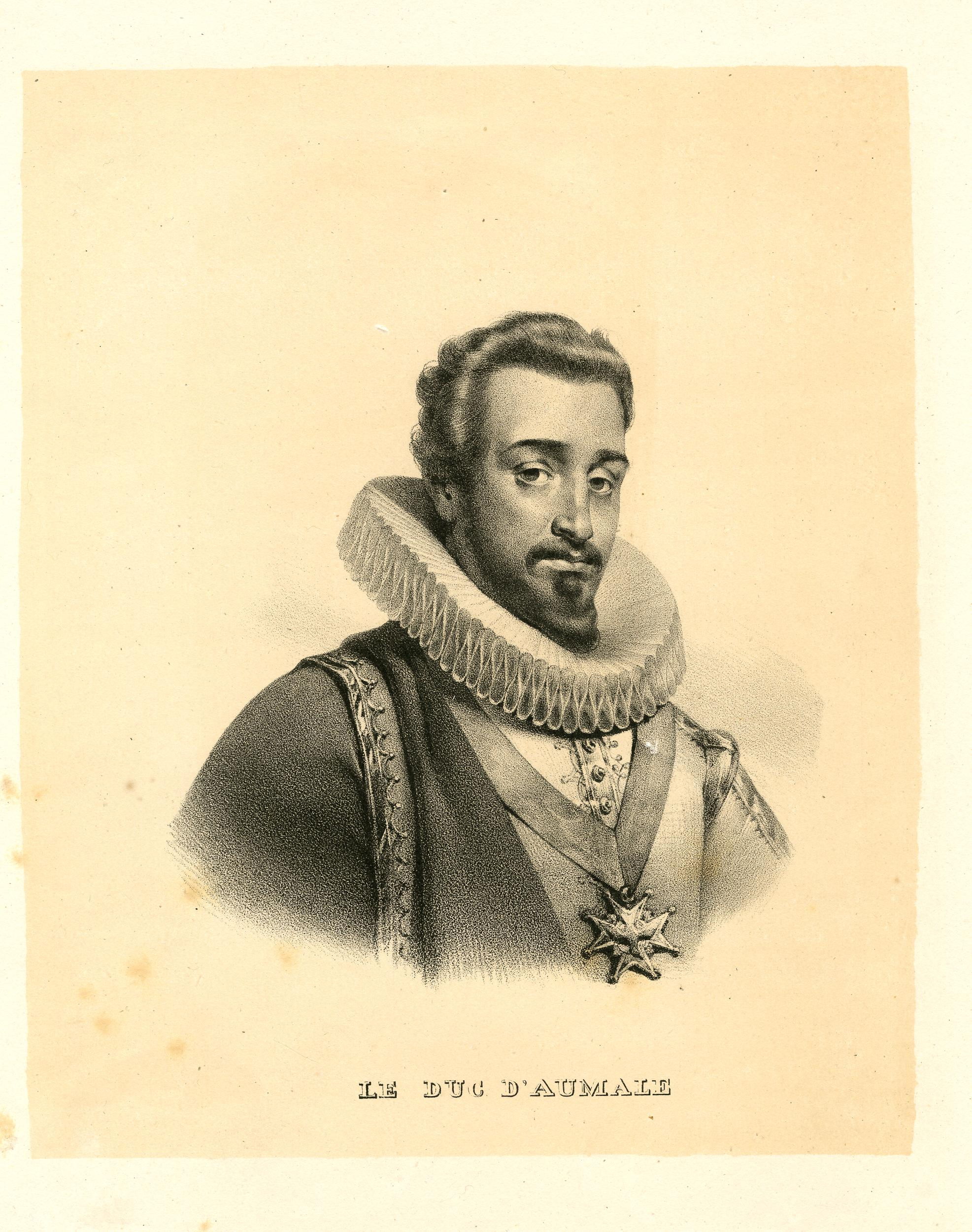 Portrait of Charles de Lorraine, Duke of Aumale, bust-length, turned to right, wearing ruff, doublet, a cloak over his right shoulder, and the cross of the order of the Saint-Esprit suspended from a ribbon; illustration from "La Henriade, poeme de Voltaire" (Paris: Dubois, 1825) Lithograph, with tint stone